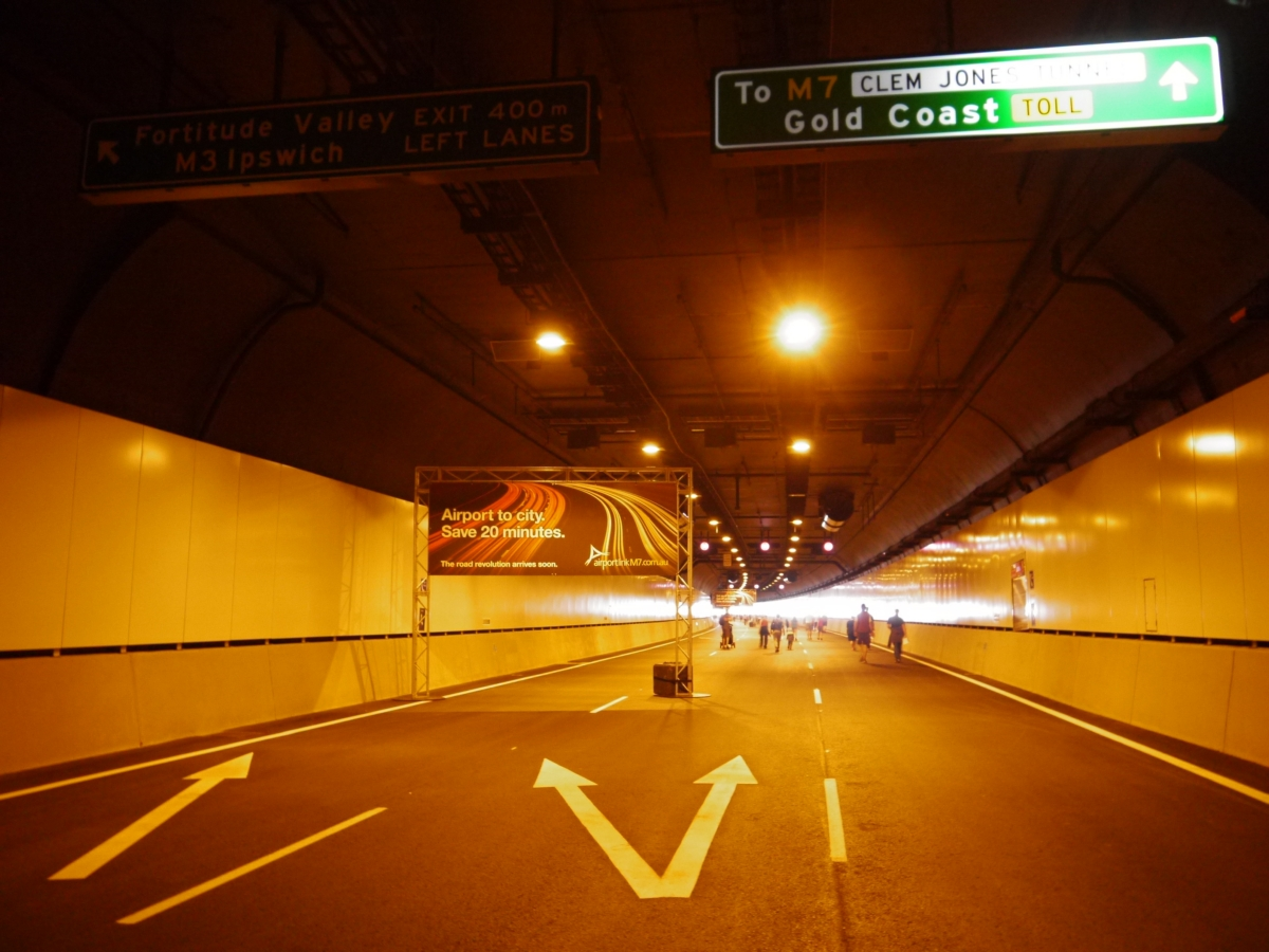 Brisbane Airportlink - Southern Portal heading southbound to Fortitude Valley taken during opening walkthrough ('Bridge and Tunnel Experience')